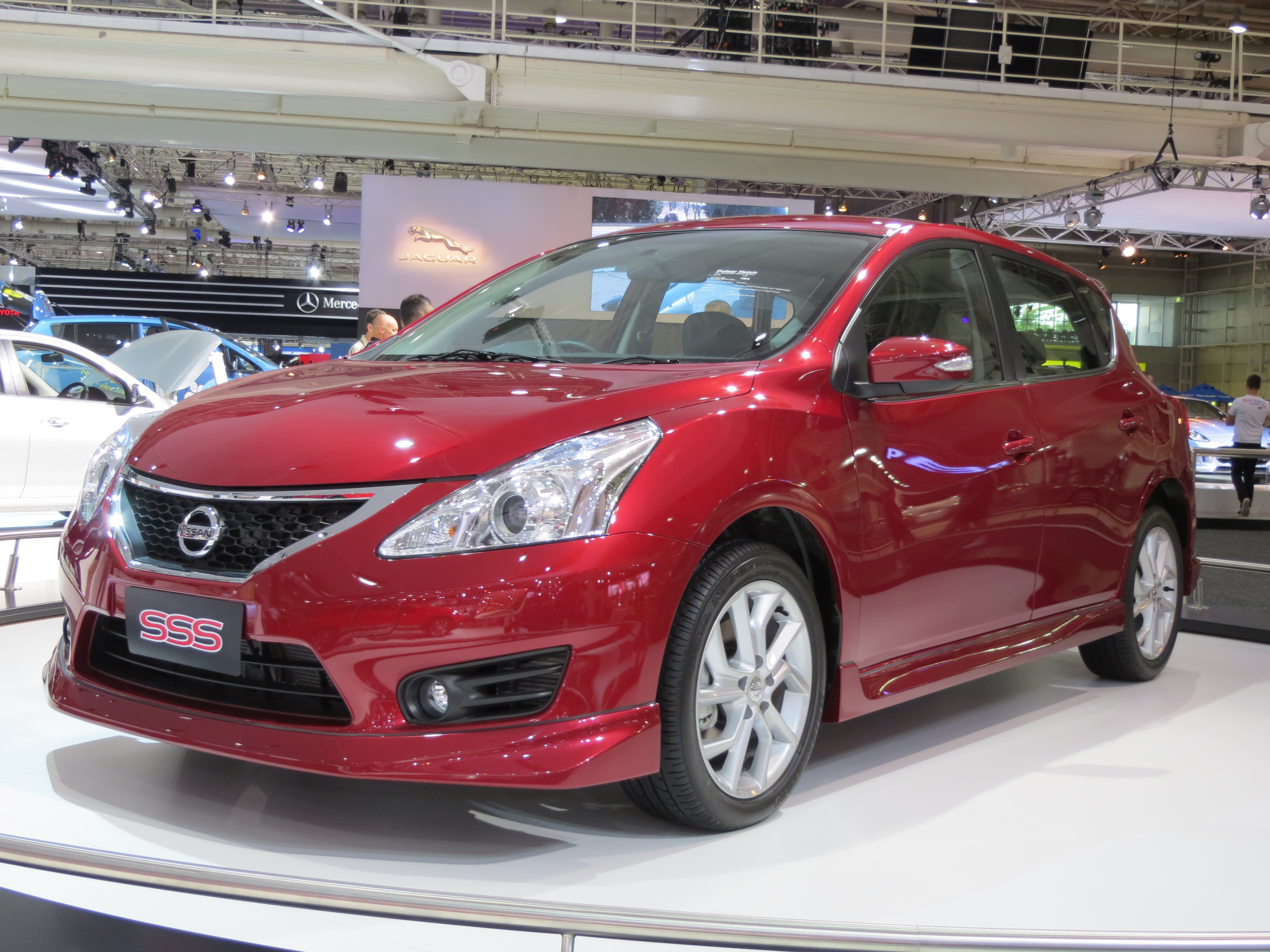 2012 Nissan Pulsar (C12) SSS hatchback. Photographed at the 2012 Australian International Motor Show, Sydney, New South Wales, Australia.